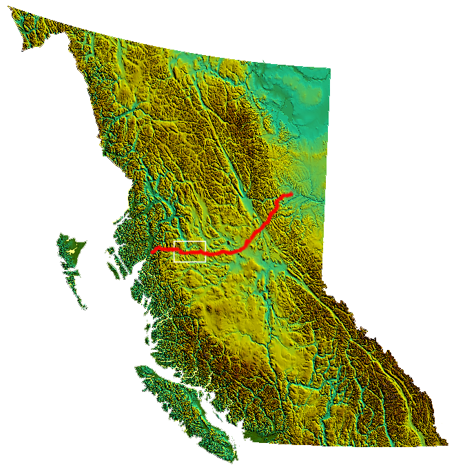 Map across British Columbia of Coastal-Gaslink pipeline. Box indicates disputed area.